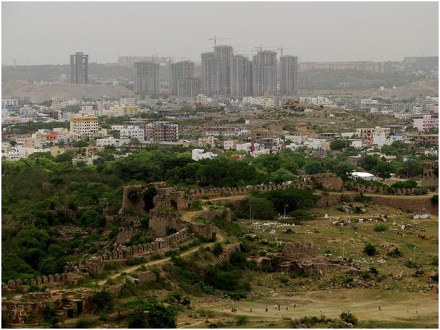 Hyderabad India, A view of modern construction from golconda fort.